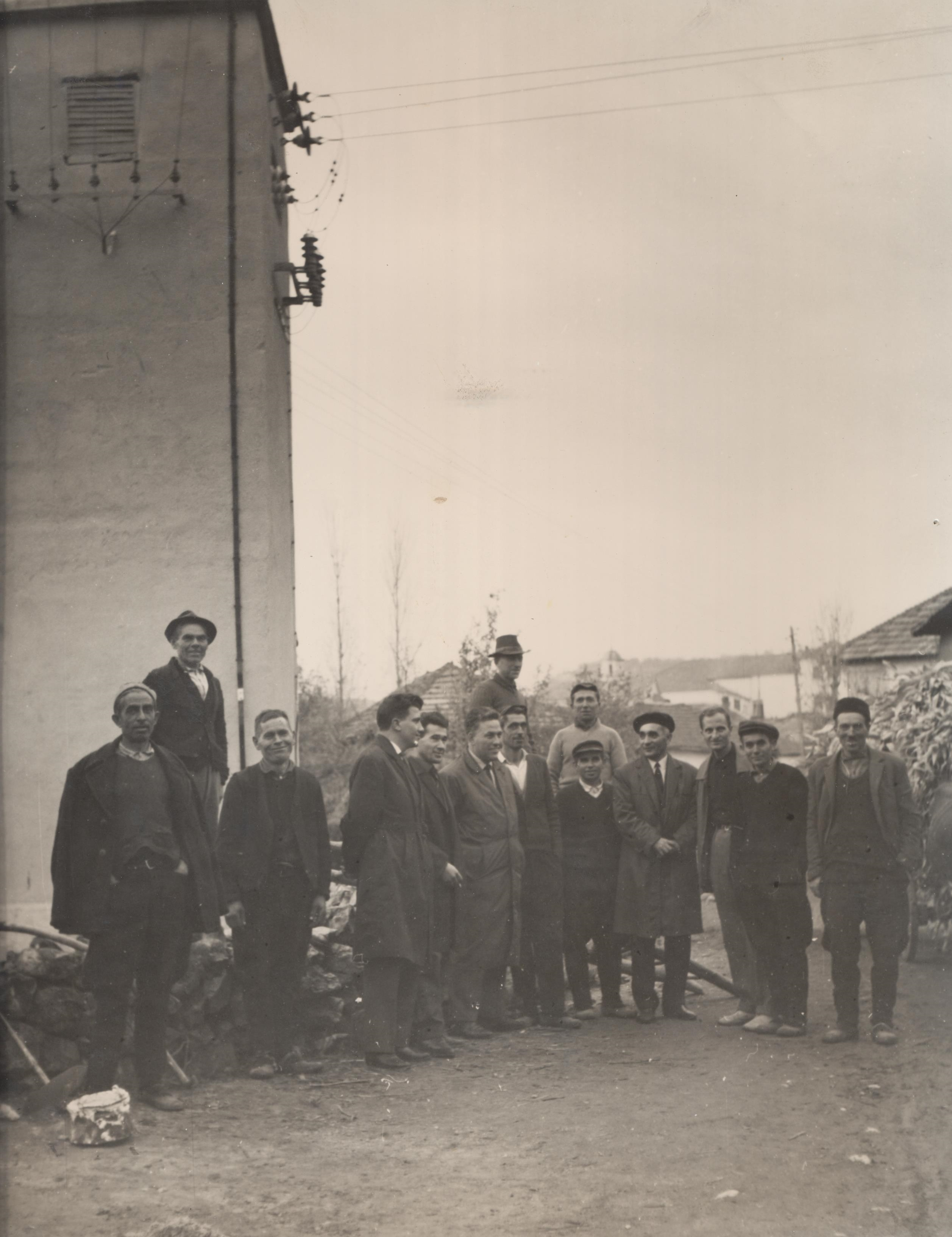 Prisjan village received electric light bulbs in 1965